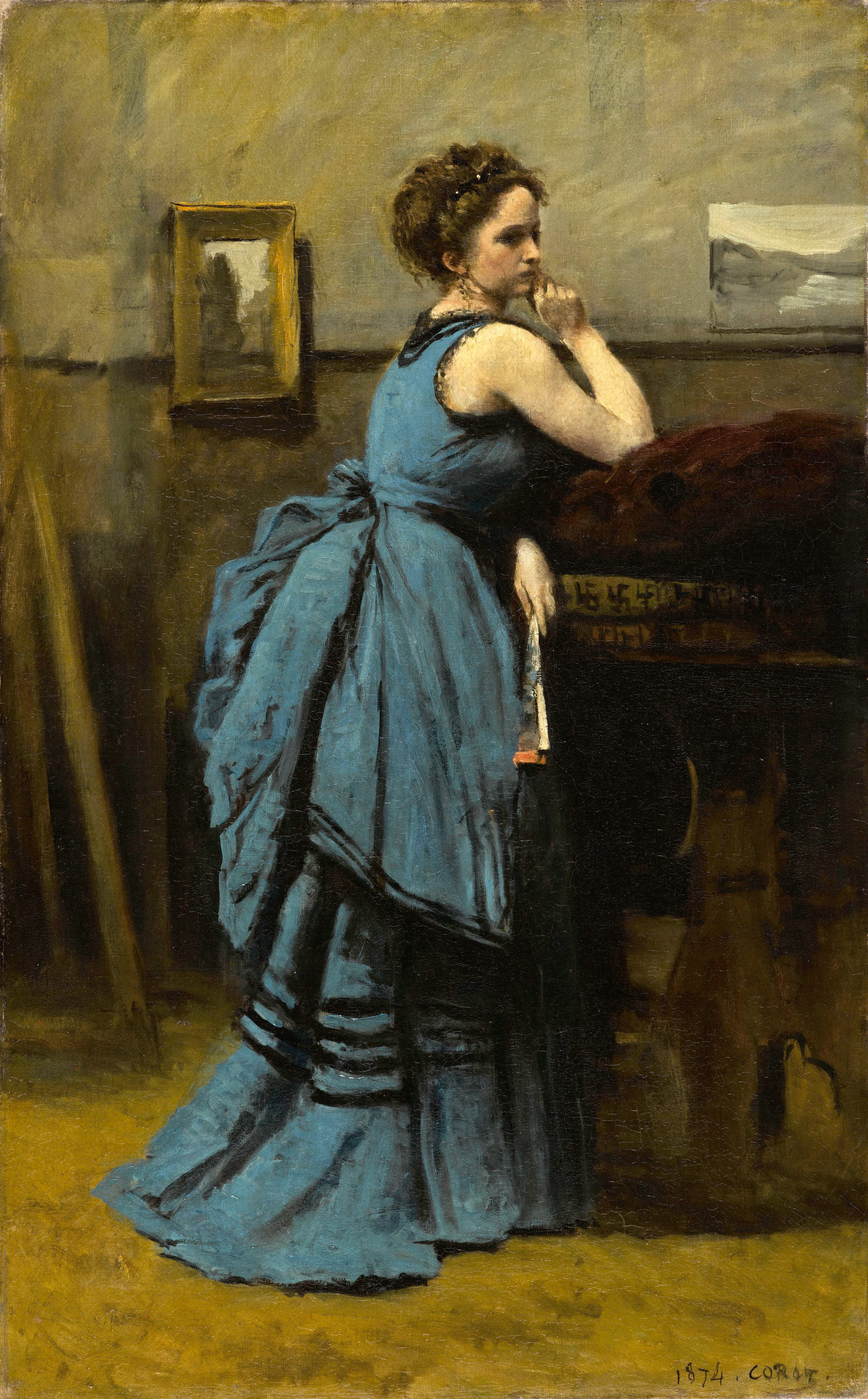 Lady in Blue, oil painting by Jean-Baptiste-Camille Corot (1874)